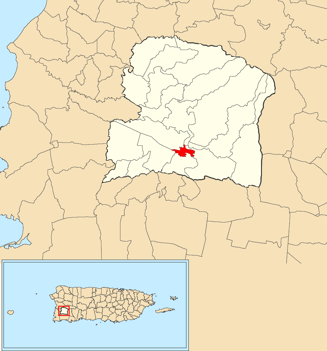 San Germán barrio-pueblo, San Germán, Puerto Rico locator map